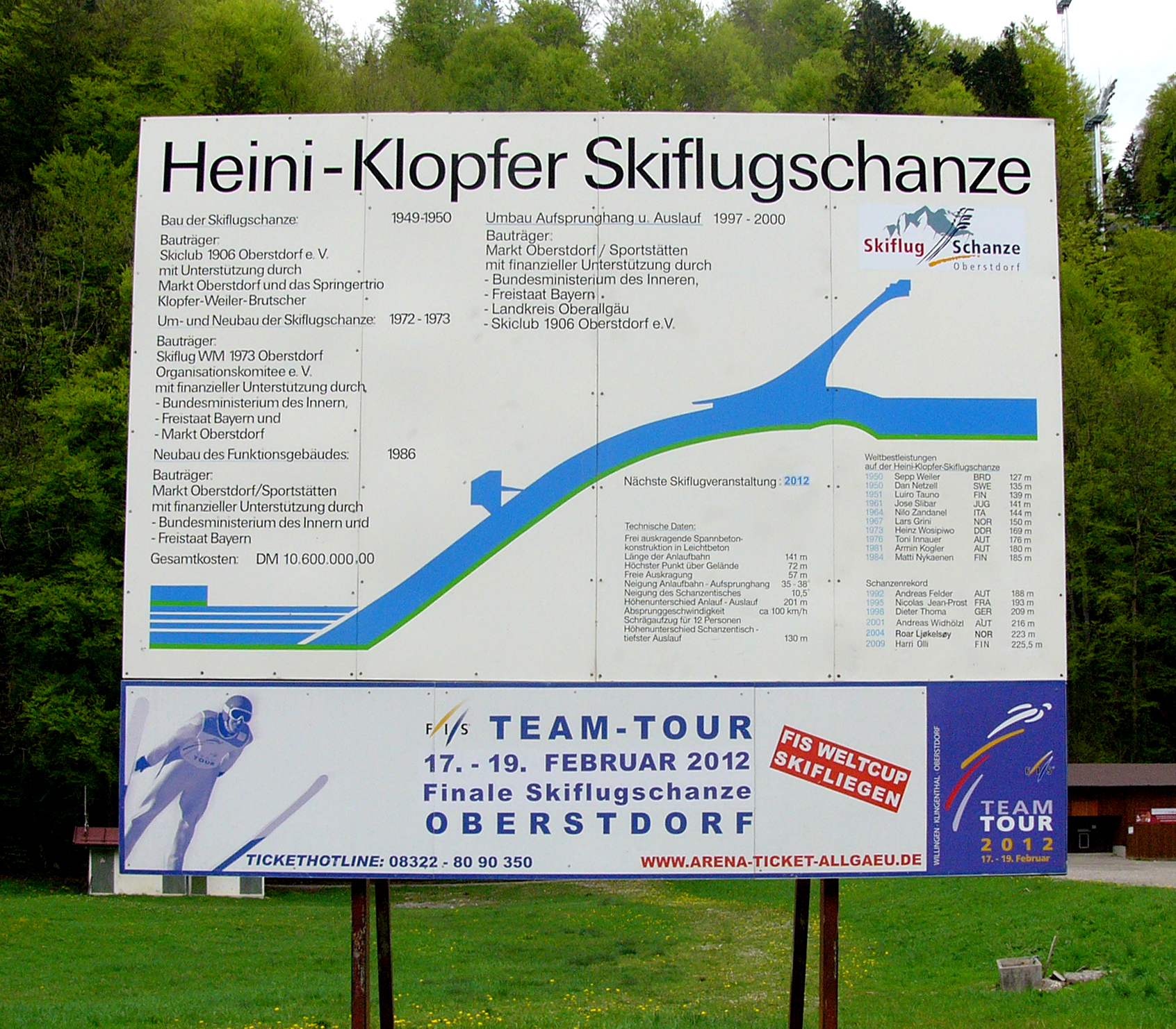 The Heini Klopfer Ski Jump is located near Oberstdorf in southwestern Bavaria, Germany. View to the information board.